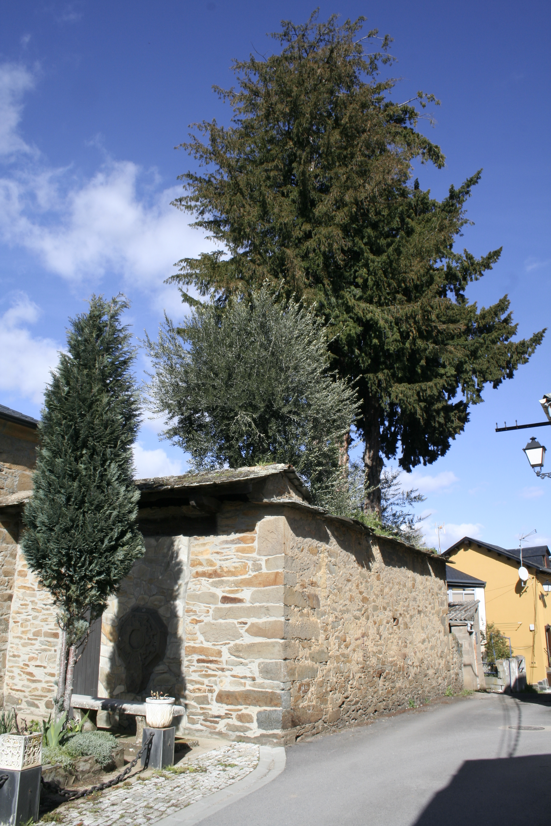 Tejos de la iglesia de Albares de la Ribera